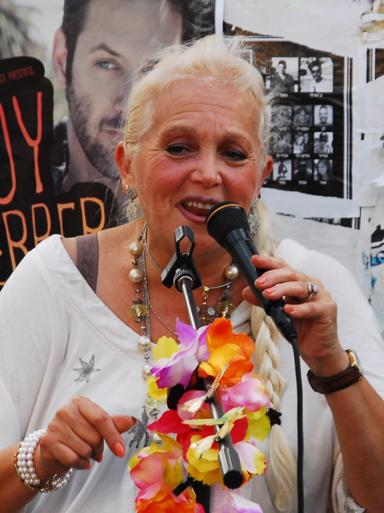 Miri Aloni singing in Tel Aviv